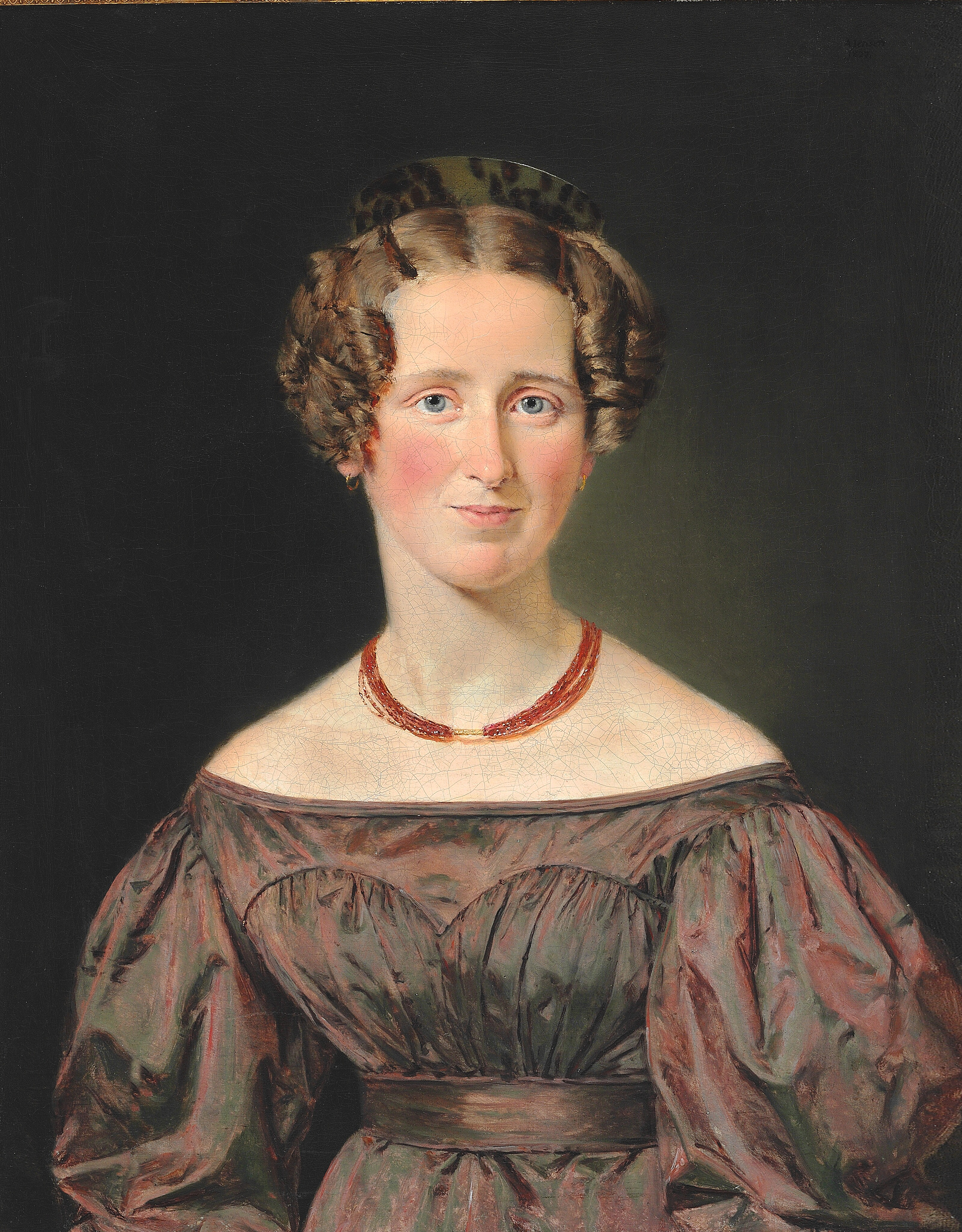 C.A. Jensen made portraits of his colleague J.L. Jensen and his wife in 1827-1828. The two paintings were auctioned as one lot.